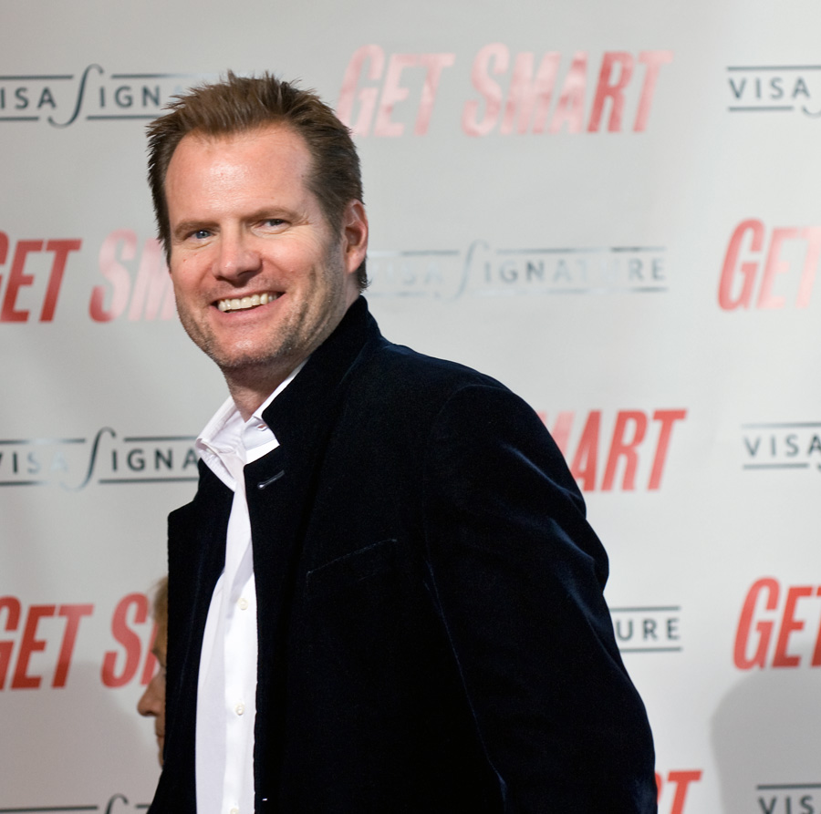 American actor Jack Coleman arrives at the Get Smart premiere, Fox Theater, Westwood, CA.